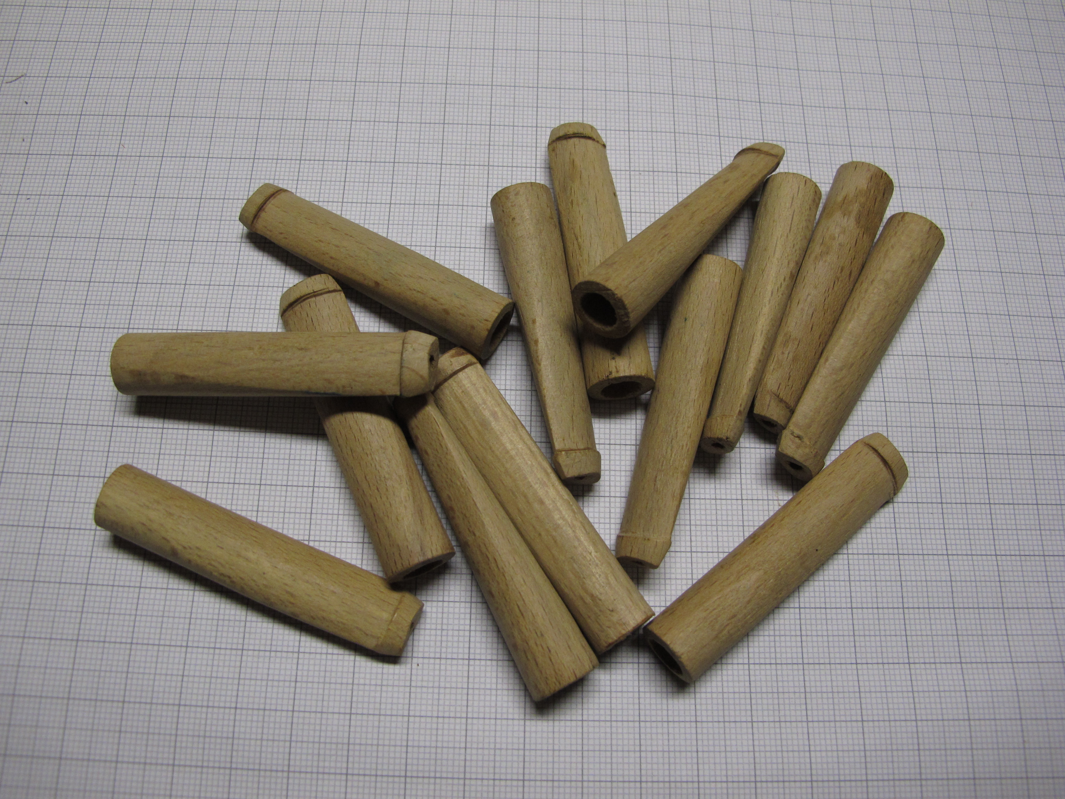 Zigarettenhülse Zigarettenspitze Cigarette_holders